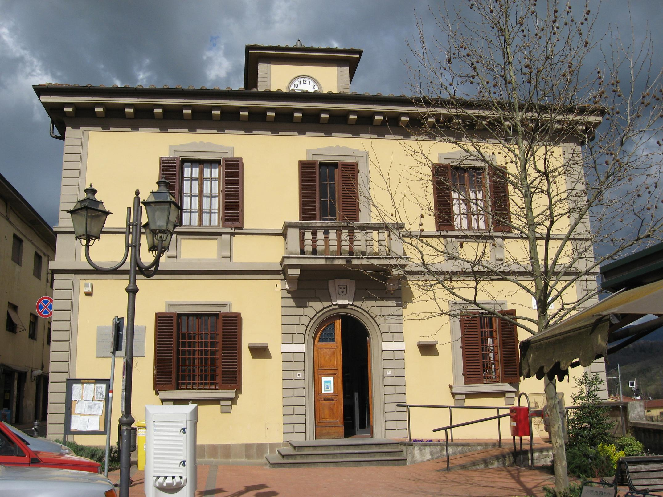 Rignano sull'Arno, City Hall